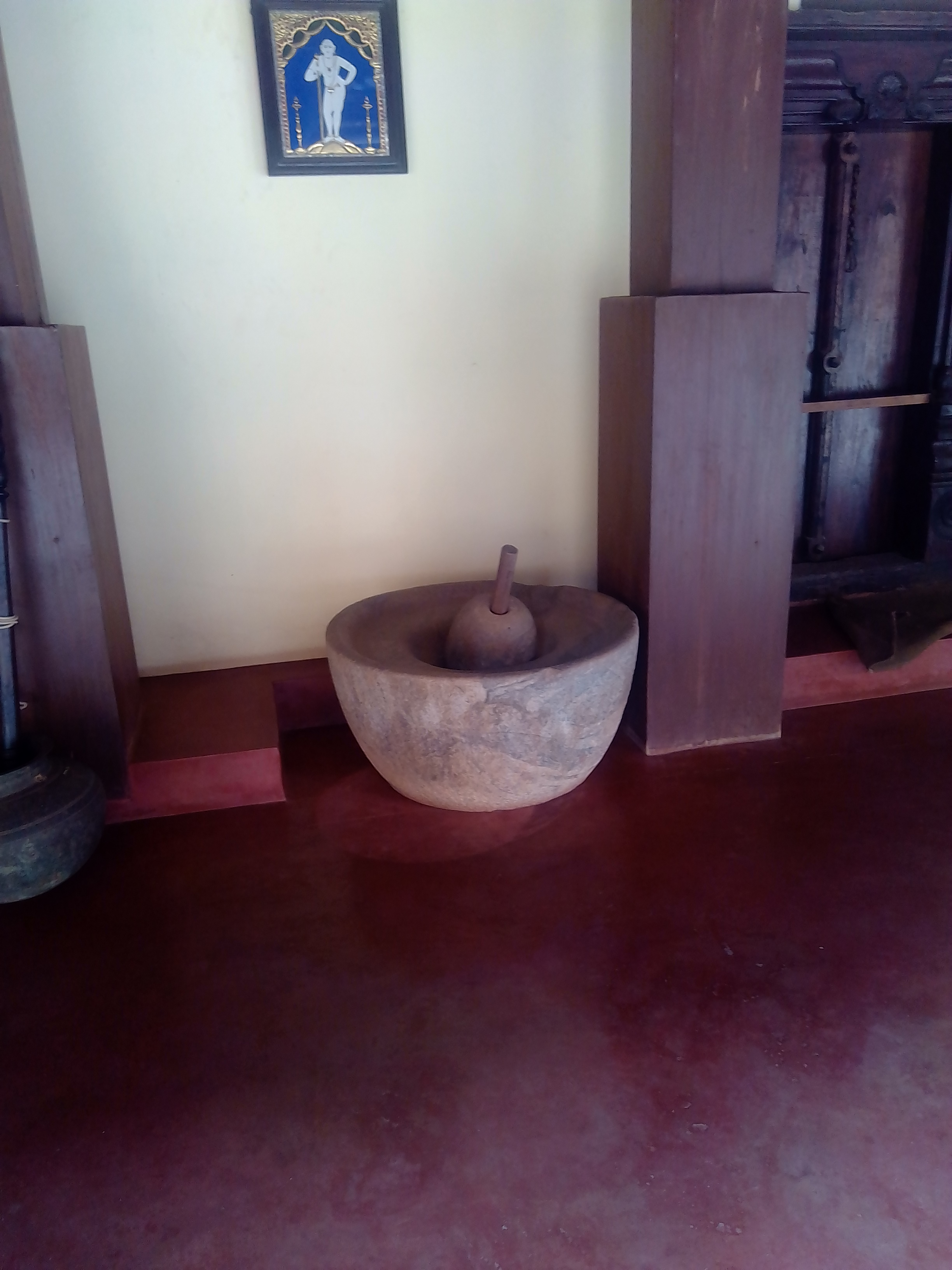 Indian grinding stone used to make batter for Dosa,Idli and also different chutney. The grinding is done by hands by revolving middle stone .